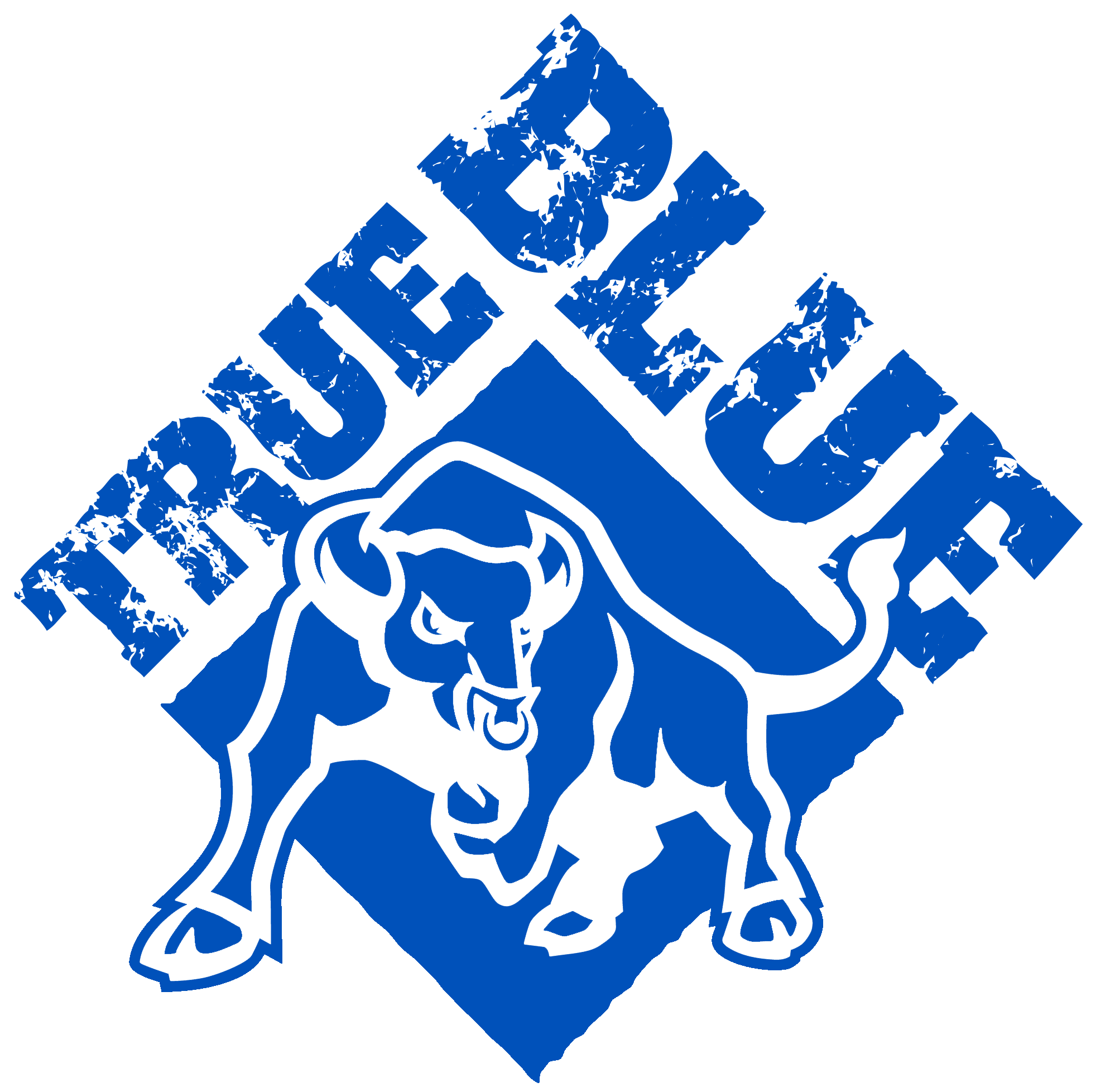 This is one version of the True Blue logo.